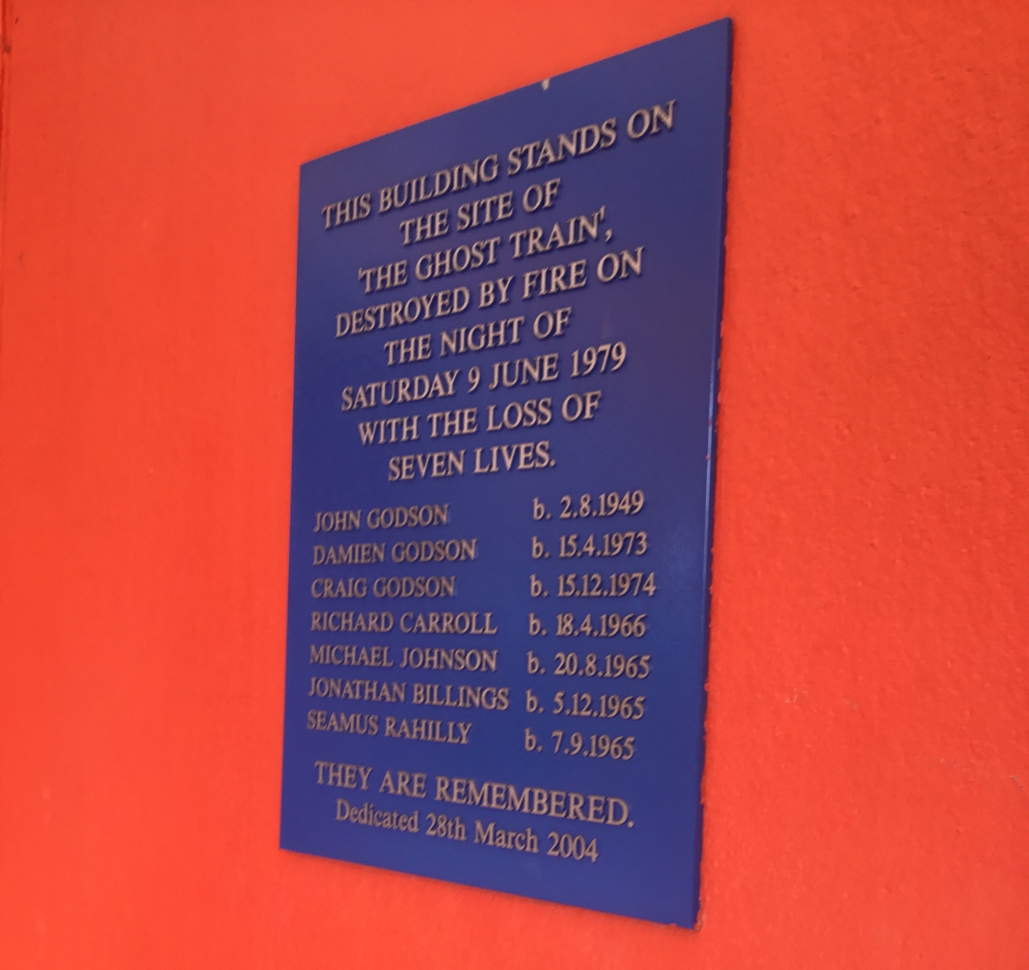 A photo of the memorial plaque at Luna Park Sydney in remembrance of those who died in the 1979 Ghost Train Fire.